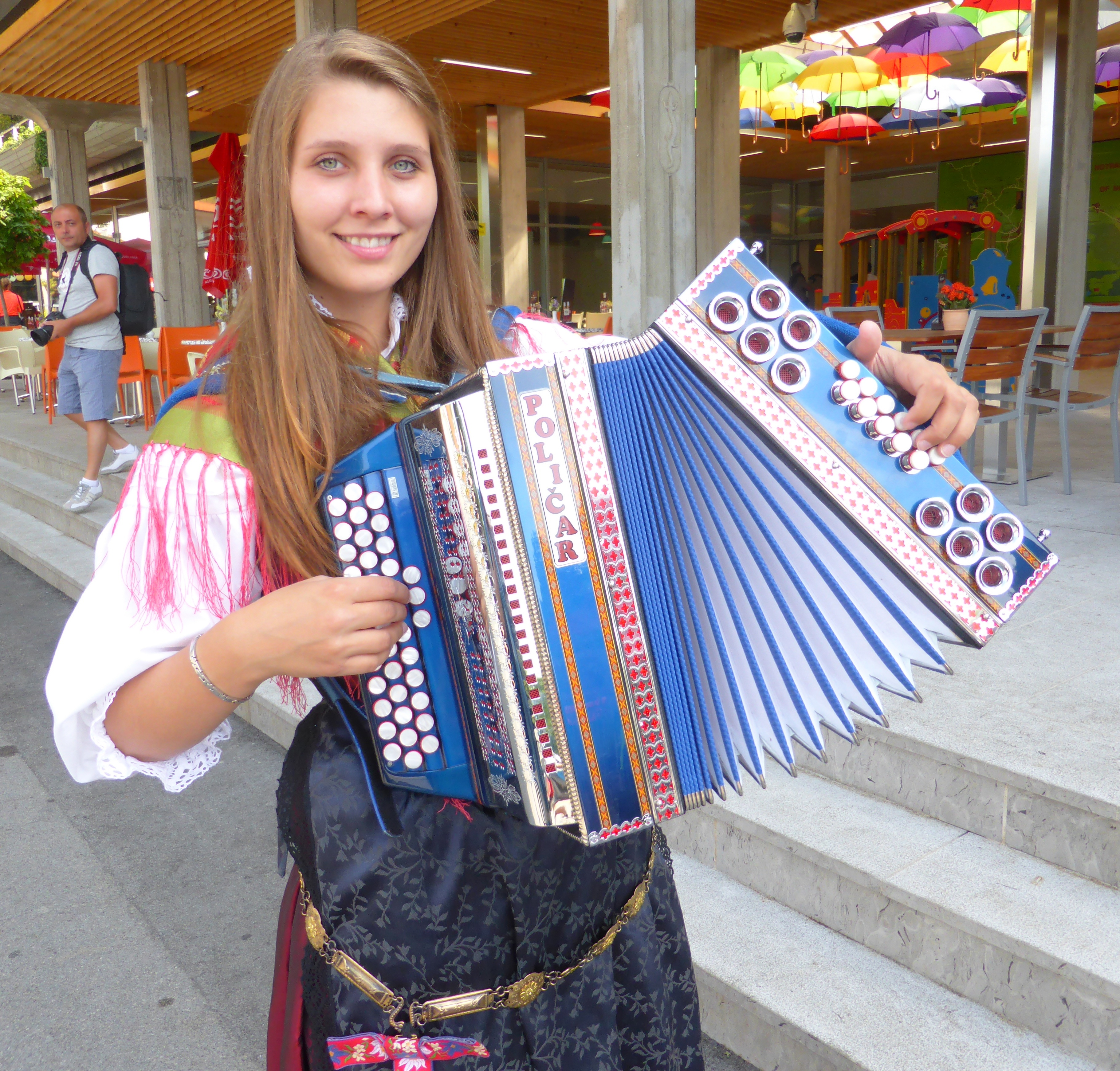 A Slovenian accordionist outside of the Postojna Caves.